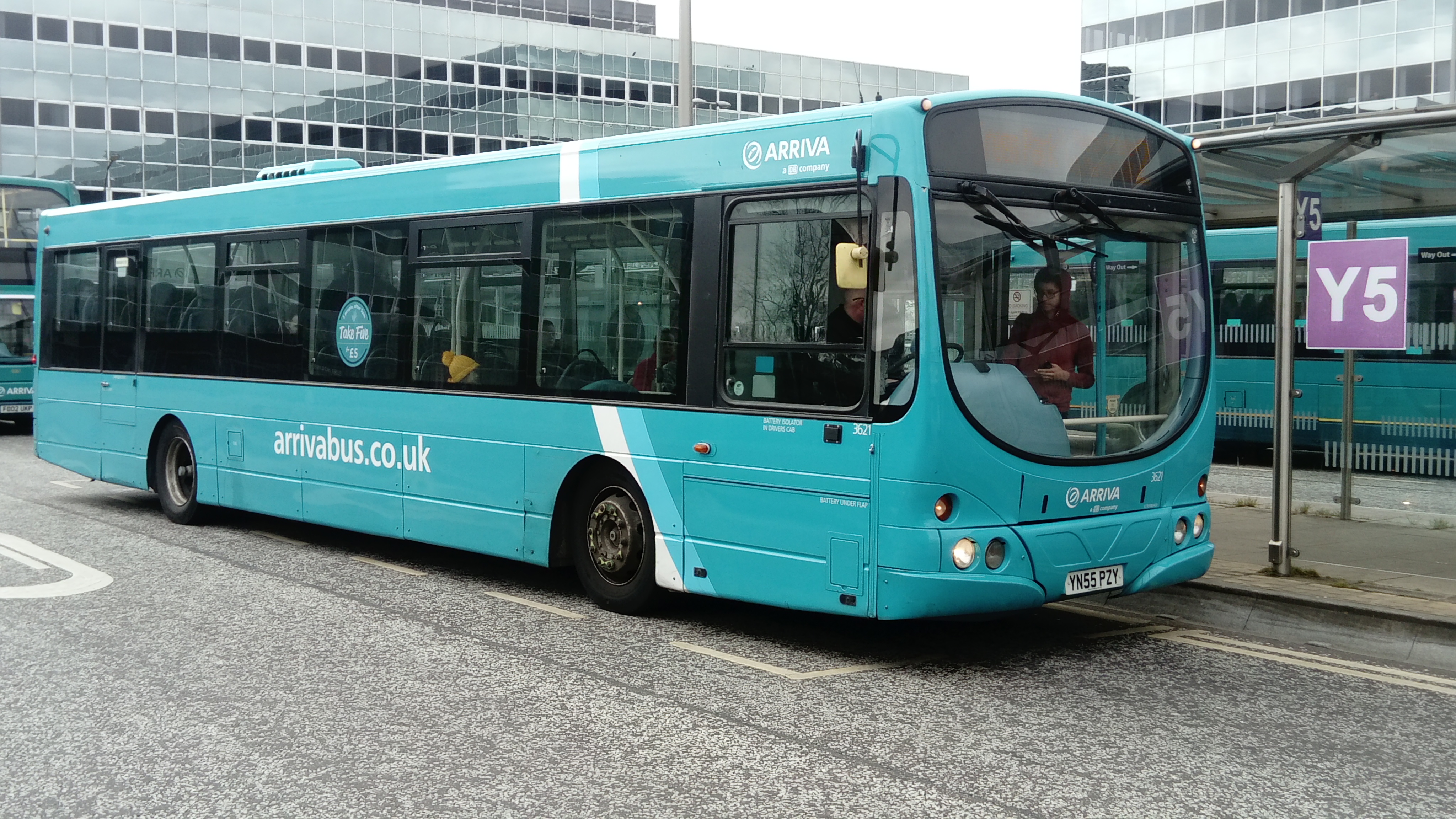 An Arriva the Shires bus at Milton Keynes Central railway station in April 2019. It is a Scania L94 UB with Wright Solar body, fleet number 3621, registration mark YN55 PZY.